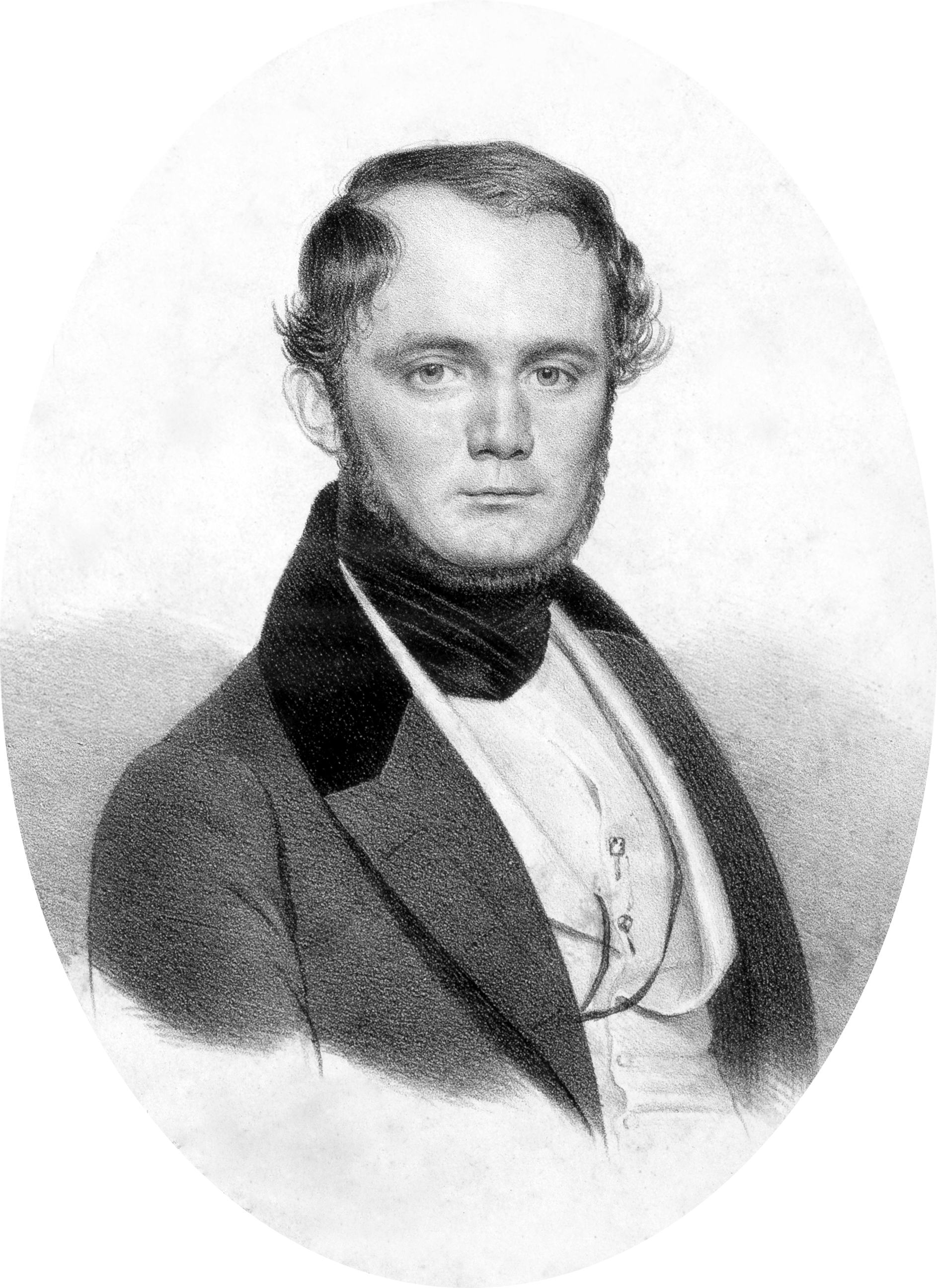 Lithograph of Charles Gayarré (1805-1895)